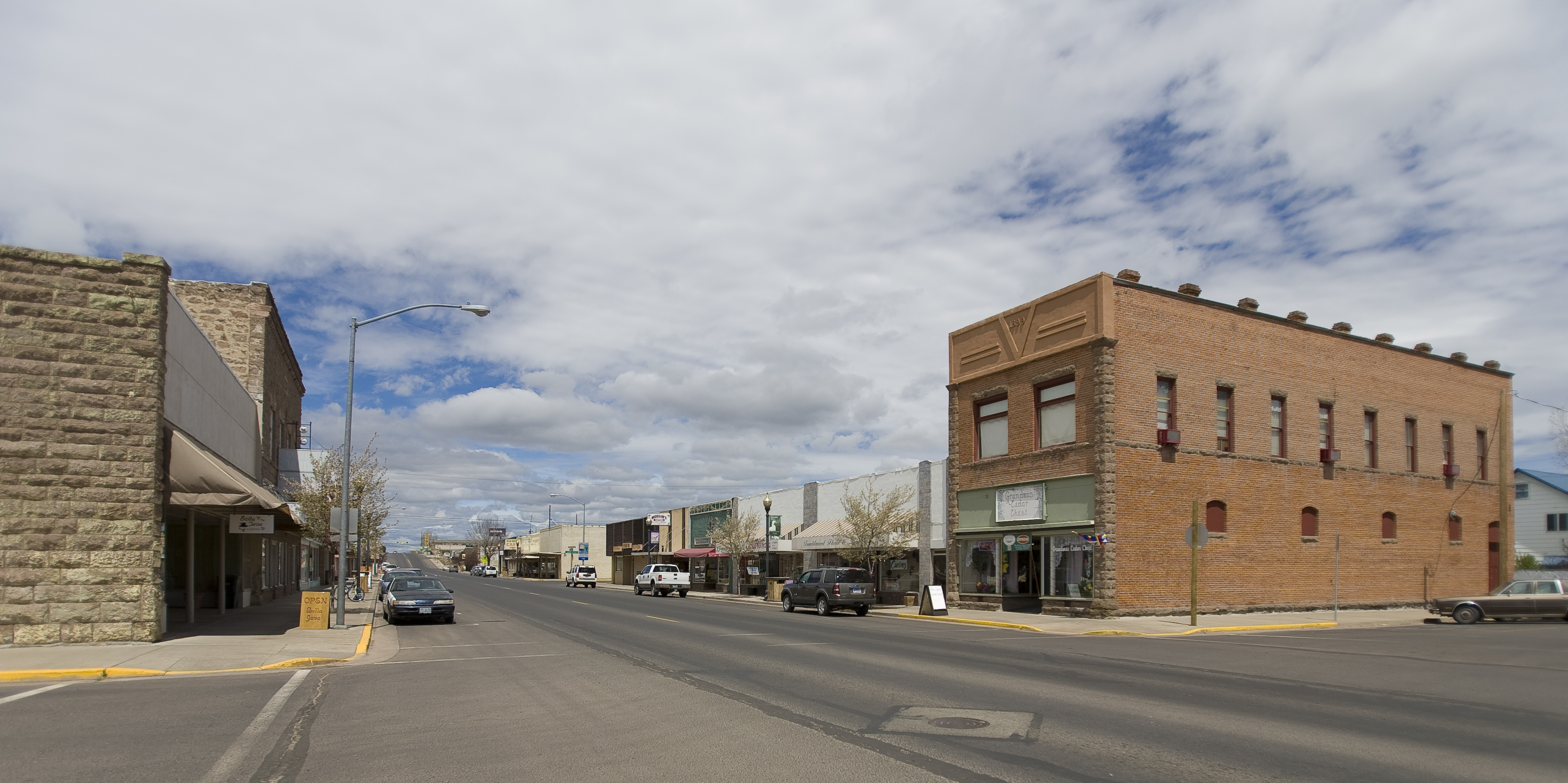 Broadway Street in Burns, Oregon.